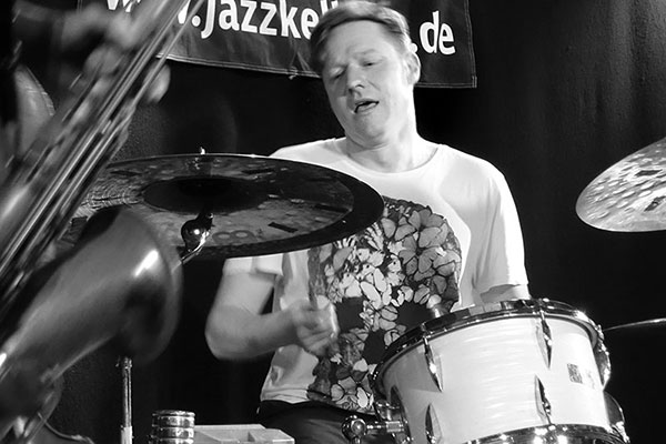 Oliver Steidle at Aufsturz jazzkeller69 Berlin (2015)